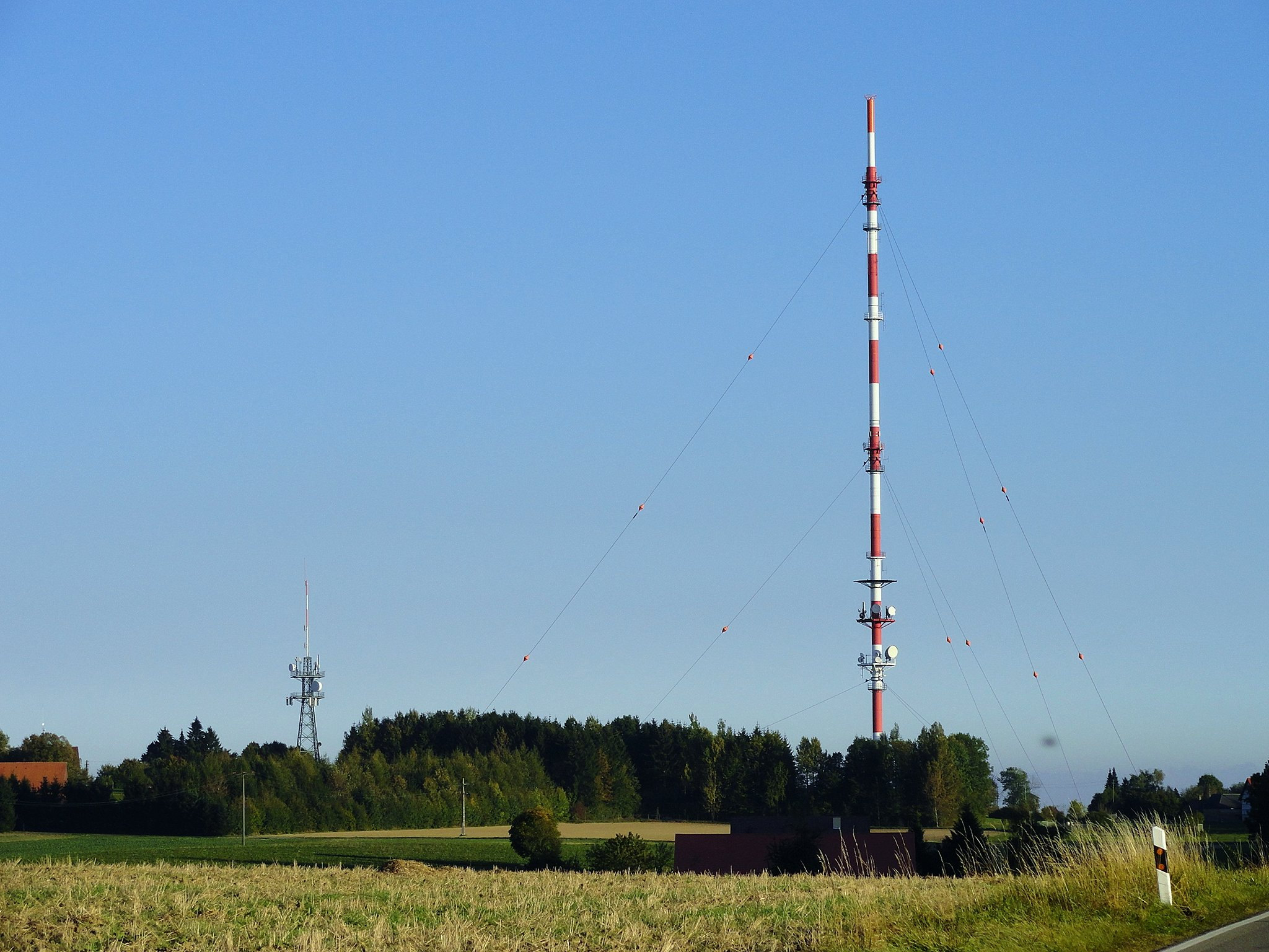 Radio Transmitter "Ravensburg (Höchsten)"